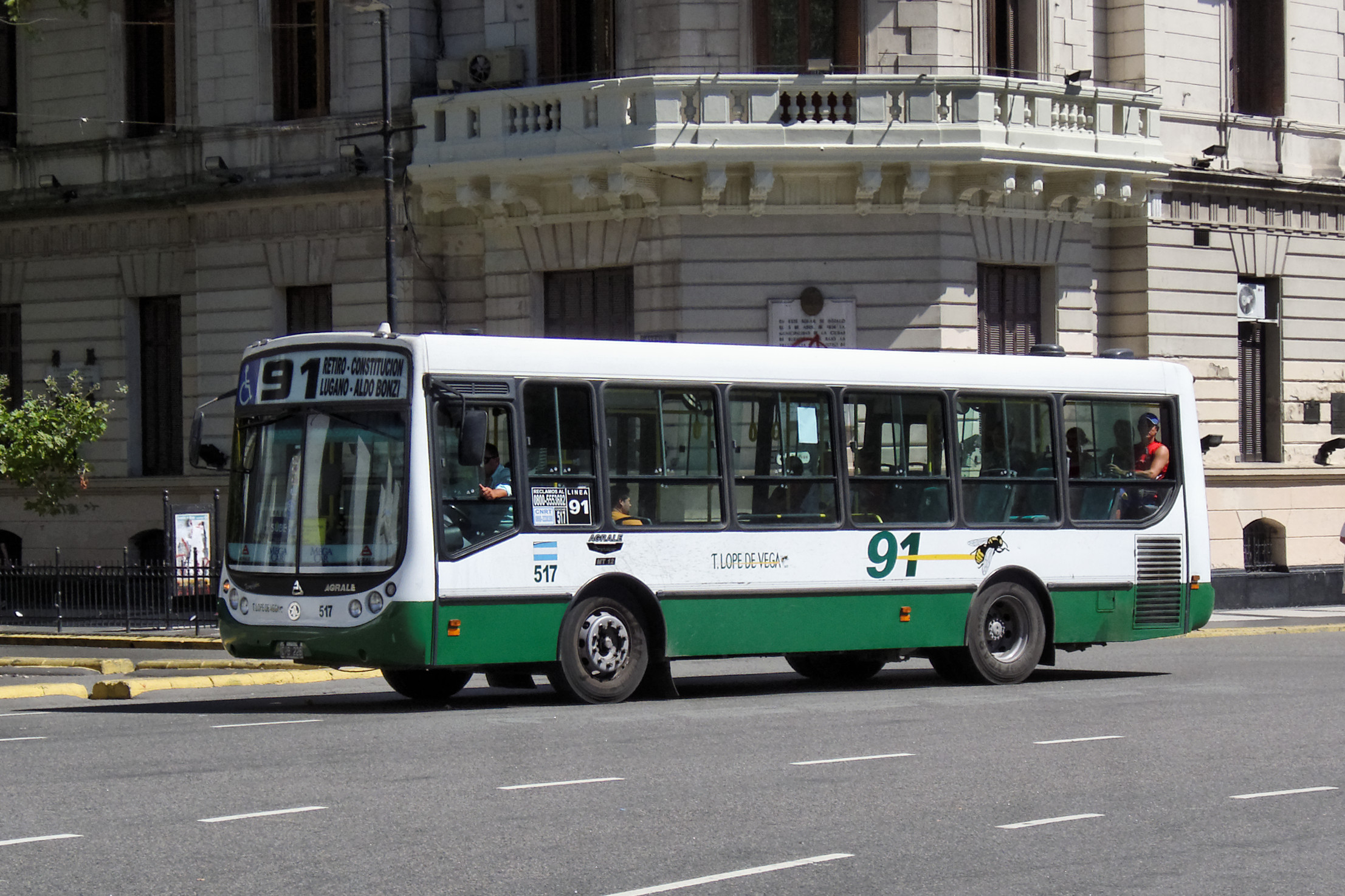 Metalpar Tronador bus (reg. IPB 226, #517), with Agrale MT 12 chassis, in Buenos Aires, Argentina. Colectivo, line 91, Transportes Lope de Vega S.A.C.I.F. (D.O.T.A.) operator.